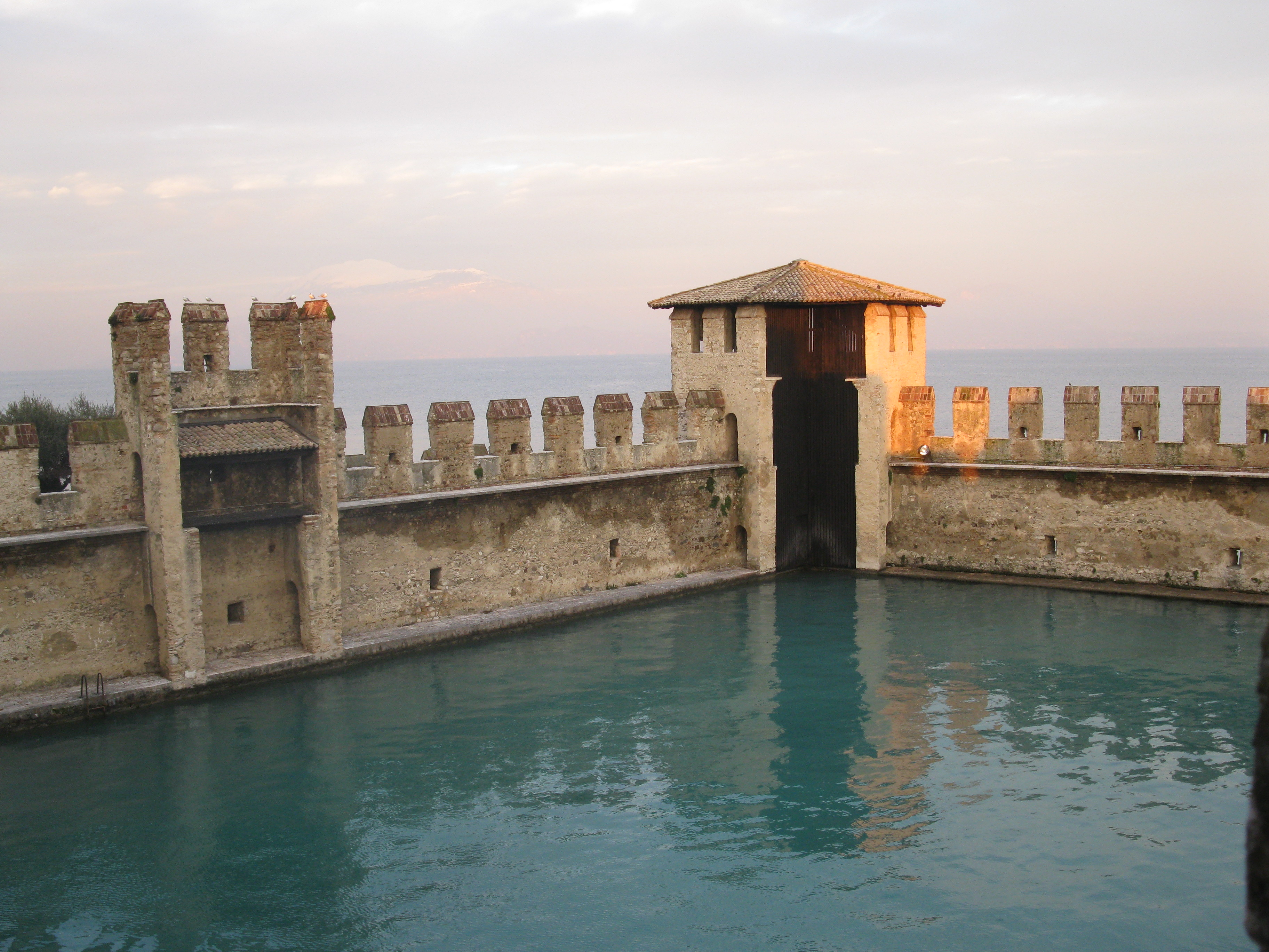 Darsena del Castello di Sirmione